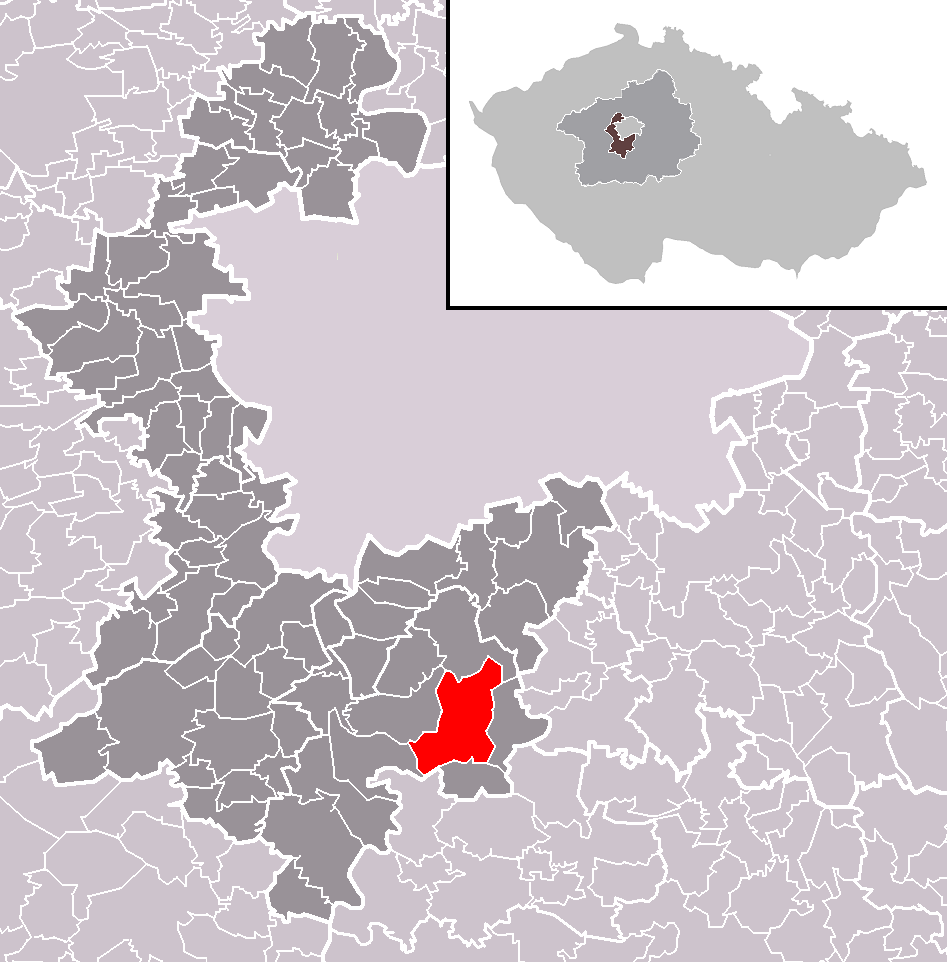 Location of Jílové u Prahy town within Prague-West District and administrative area of Černošice as a Municipality with Extended Competence.